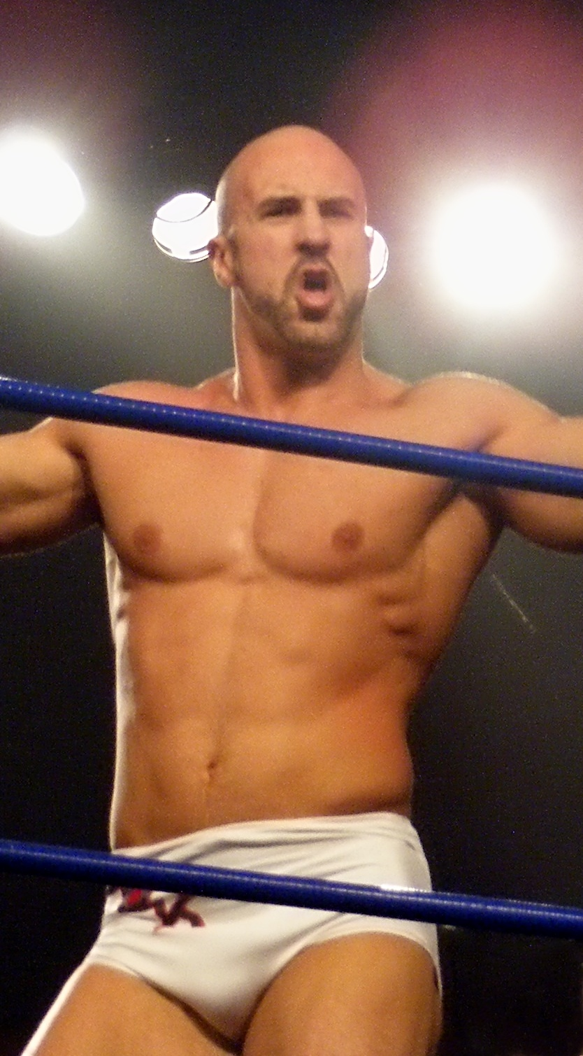 Professional wrestler Claudio Castagnoli at a Chikara show on April 25, 2010.